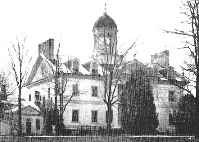 Hampton Mansion (built 1783-1790) and now part of the Hampton National Historic Site, in the Hampton area north of Towson, Maryland.